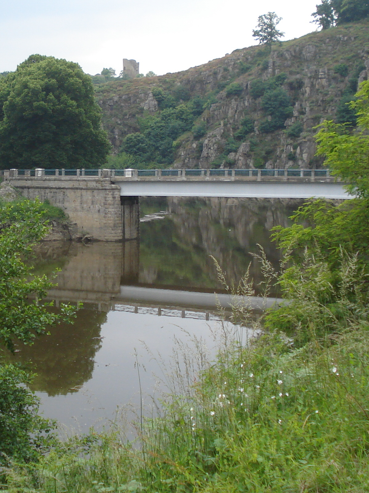 The river Creuse below the ruïns of the castle of Crozant (dept. Creuze, Fr).